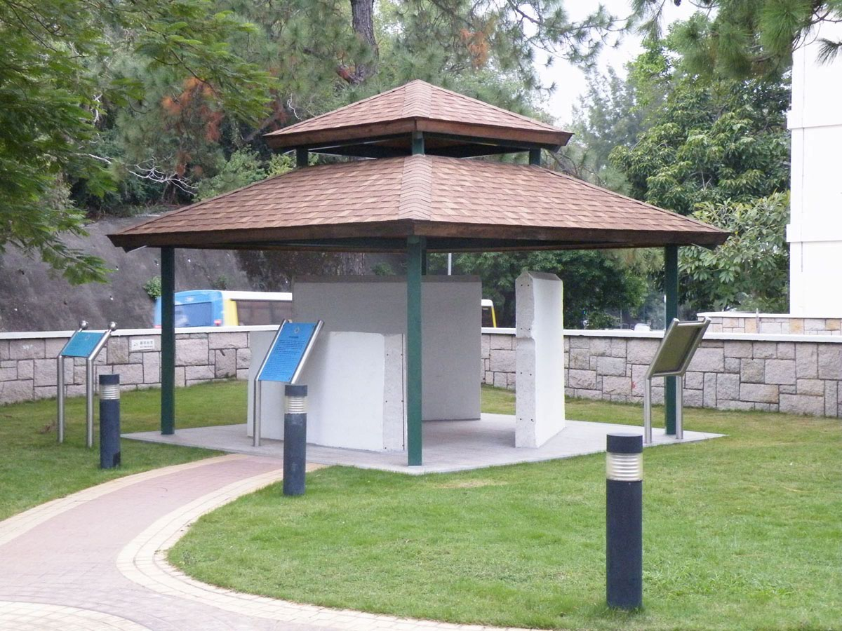 Hong Kong Correctional Services Museum